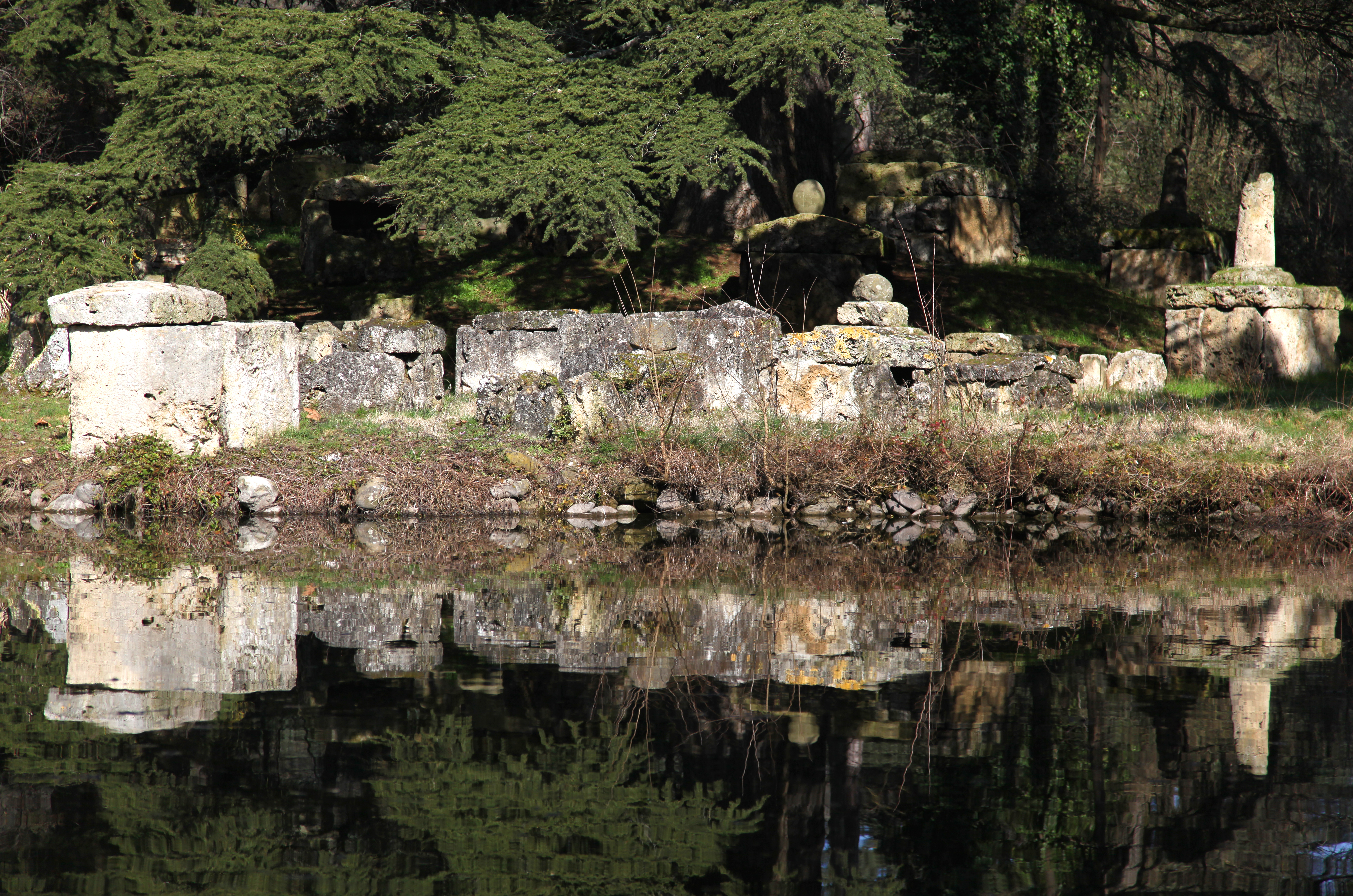 Etruscan city of Marzabotto. Graves of the Northern "Necropoli" reflected in the water of the nearby pond. This is a photo of a monument which is part of cultural heritage of Italy.